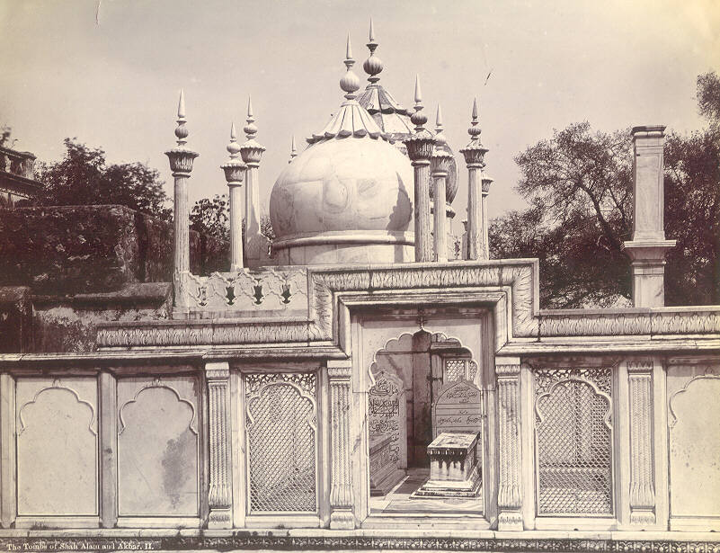 The Tombs of Shah Alam and Akbar II," a gelatin silver photo, c.1890's